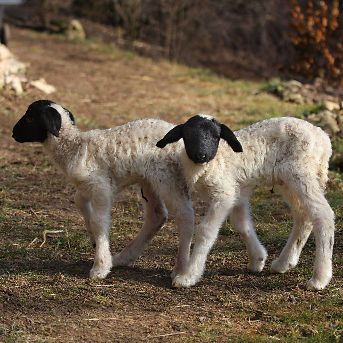 Three day old twin rhön lambs. The lambs belong to the Nature Life Ranch in Schwabenheim, Germany.